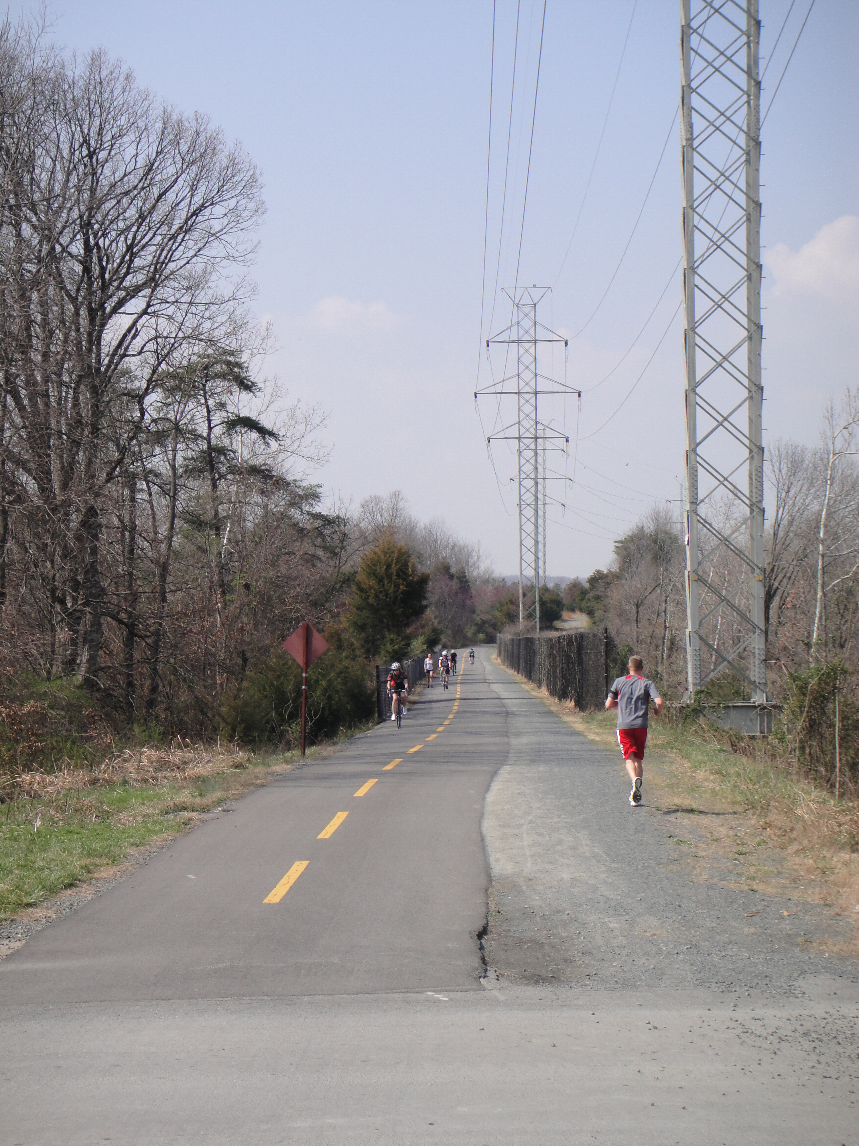 W&OD Trail - After the Intersection @ Belmont Ridge Rd in Ashburn, VA going West